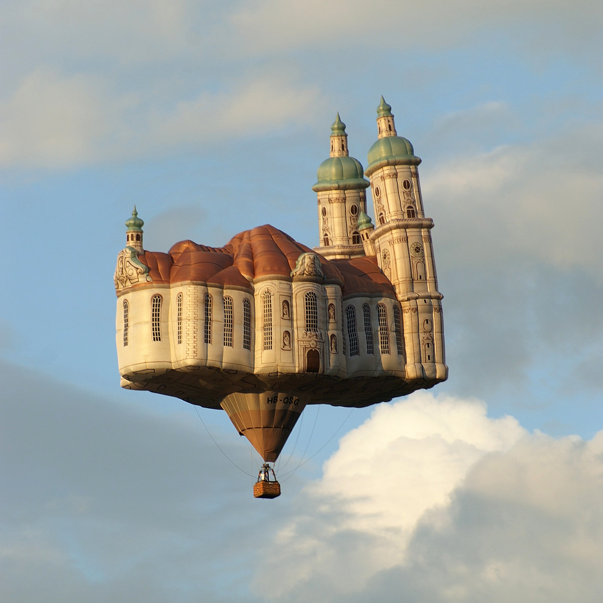 Balloon Swiss Aircraft Registry-Nr.:HB_QSG Manufacturer:KUBICEK S.R.O. *** Bj.2002 Aircraft-Pattern/Type:SPEC.SHAPE BB GALLEN Main Owners:Kanton St. Gallen; CH-9001 St. Gallen, Regierungsgebäude Main holders:B & M Balloon & Airship Company GmbH; CH-8593 Kesswil, Breitfeldstrasse 1, Postfach 1 "Flying Cathedral" by Jan Kaeser and Matin Zimmermann (Artists from St.Gallen) lookalike of Church of the Monastery of St. Gallen. Seen at the "internationalen Ballontagen Alpenrheintal" [3] on the bridge festival[4] Wiesenrain in Lustenau - Widnau.